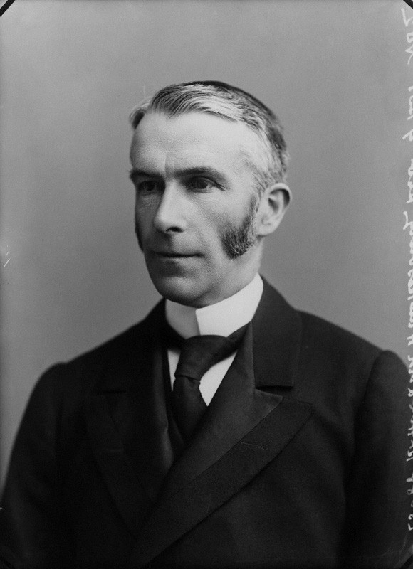 by Alexander Bassano, collodion negative, 1895